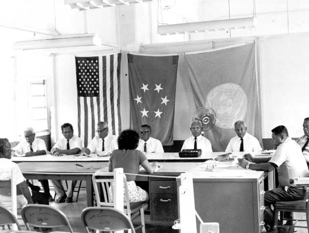 TTPI(Trust Territory of the Pacific Islands) Palau District Legislature in session